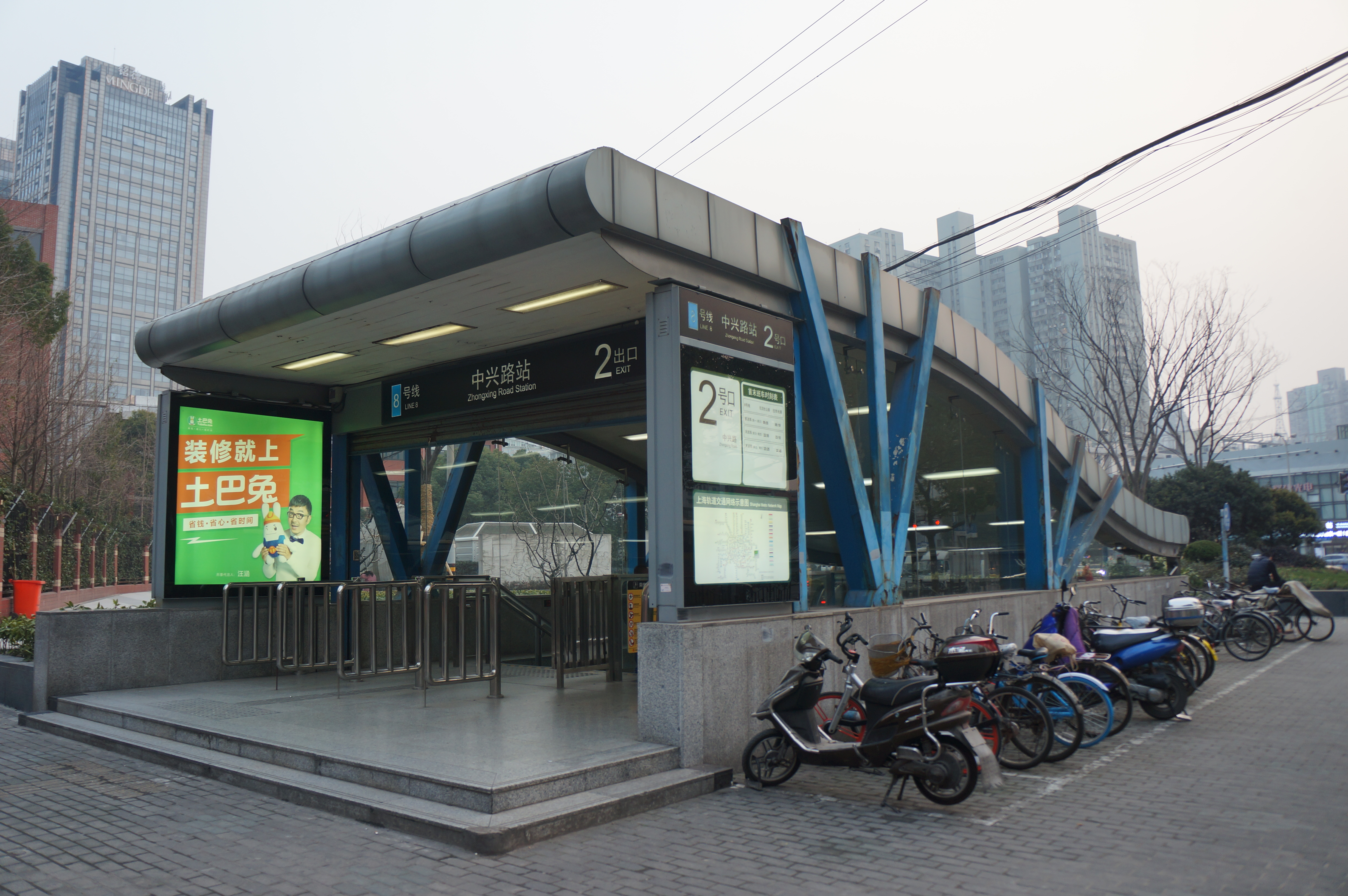 201702 Exit 2 of Zhongxing Road Station